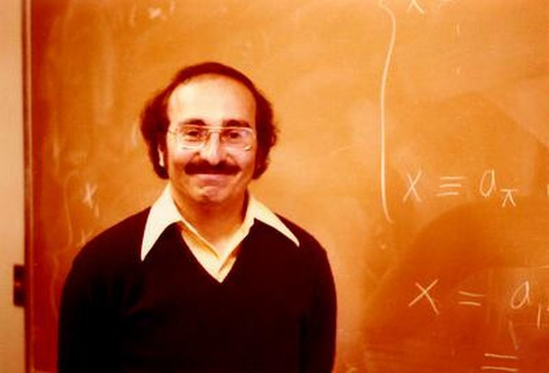 Ralph Greenberg, Seattle 1978